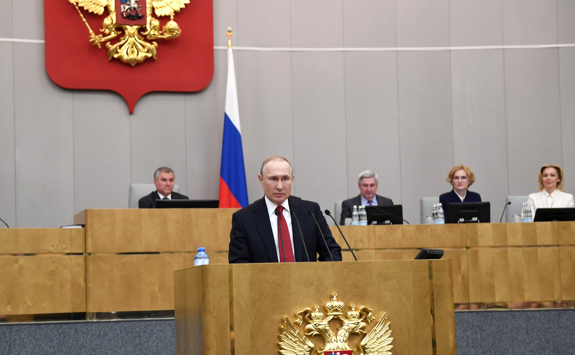 Vladimir Putin took part in a plenary session of the State Duma on amendments to the Russian Federation Constitution March 10, 2020.